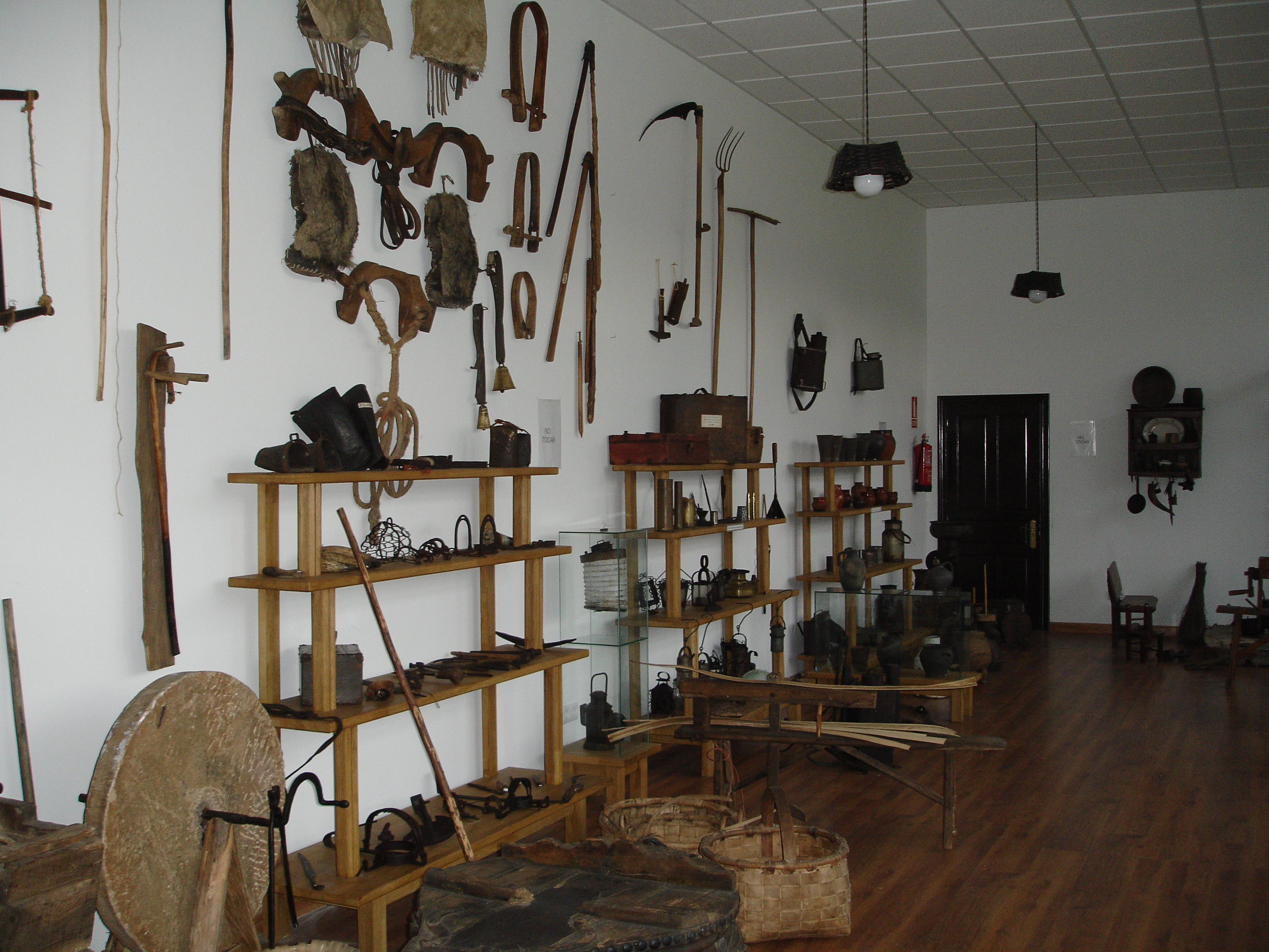 Museo etnográfico de Sama de Grado (Asturias)